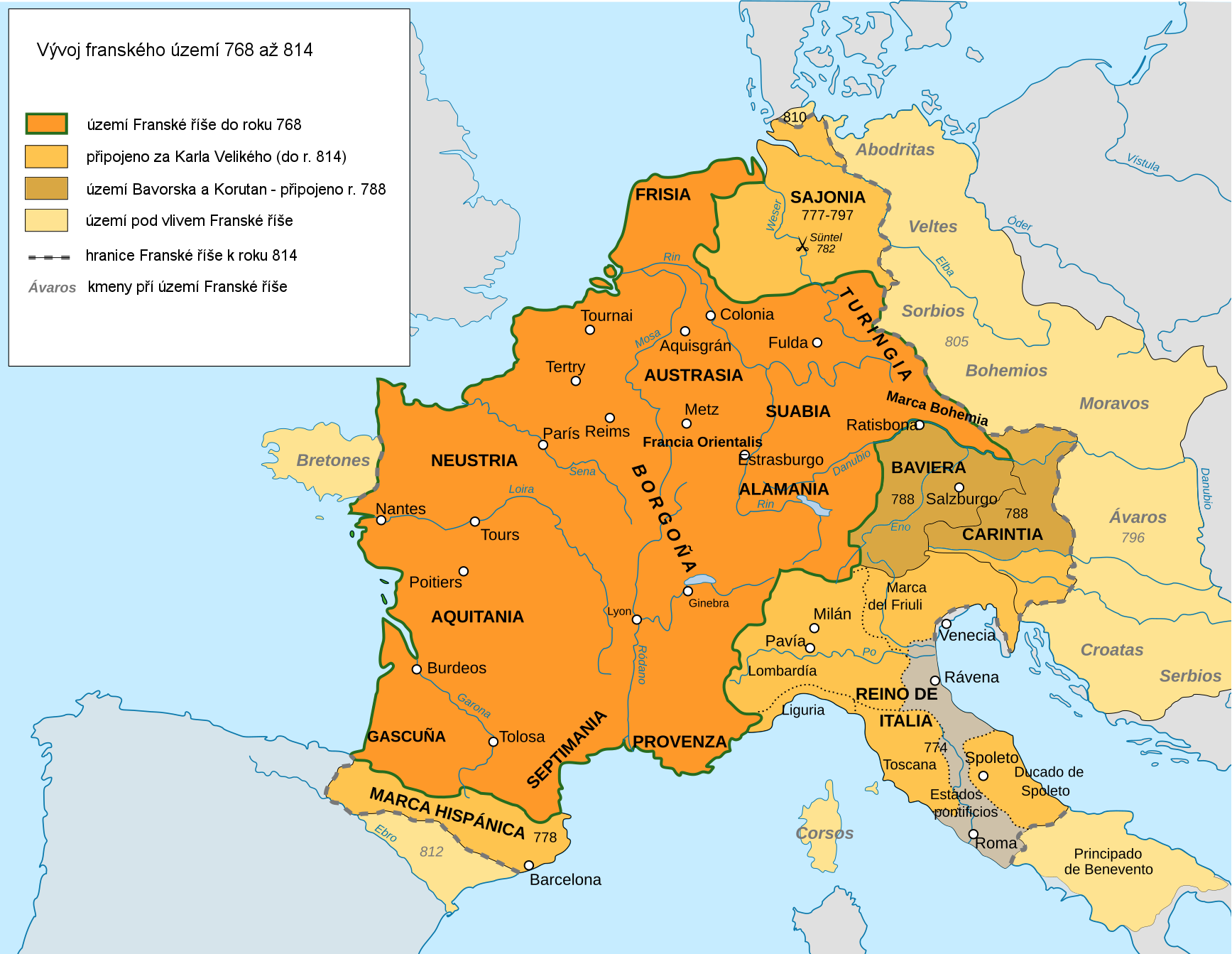 The French Empire 768-814 with the Bavarian Duchy